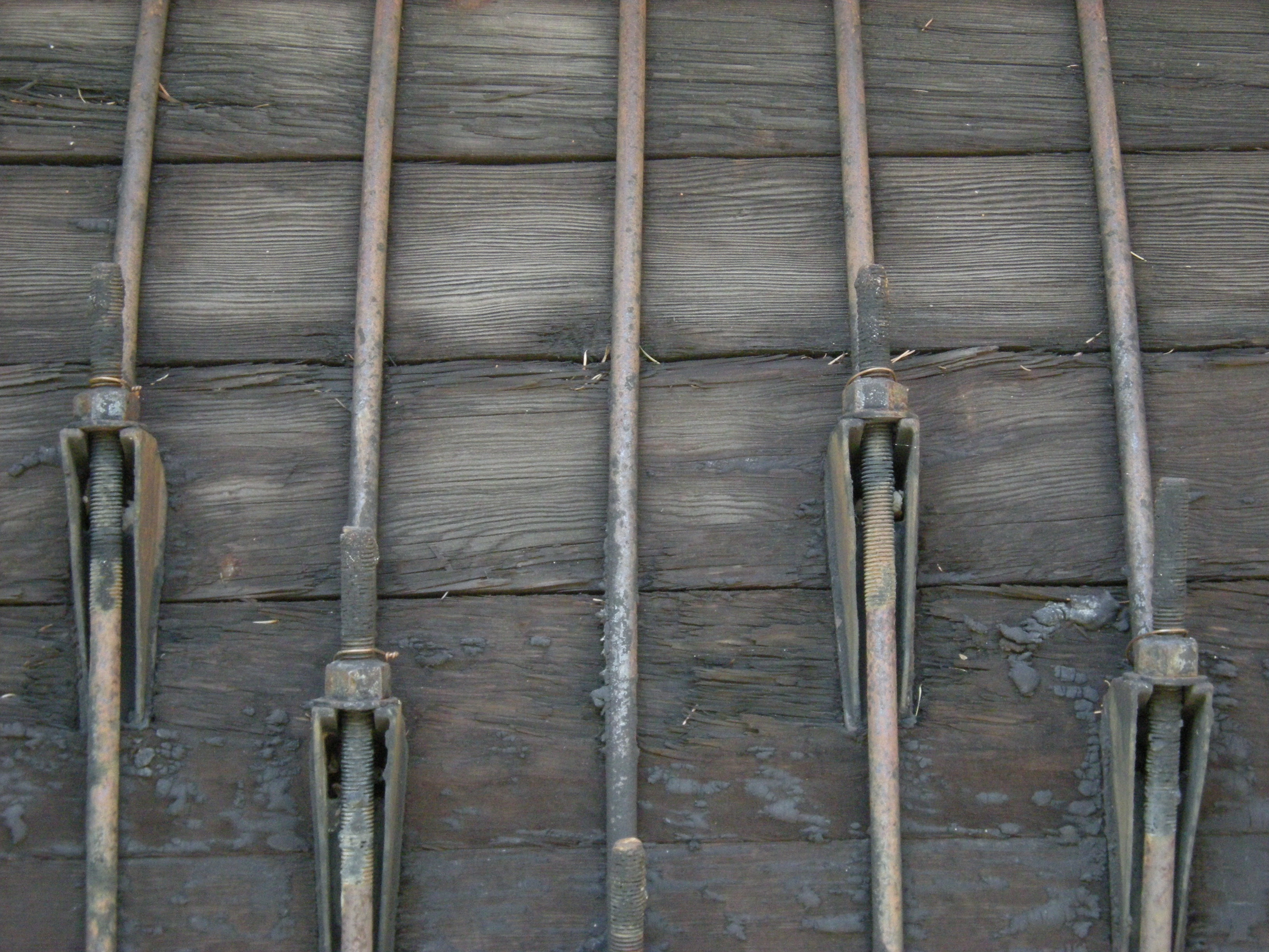 Detail of wooden pipe that was used from 1930 to 1991 to carry Cedar River water to Seattle, Washington, USA. This shows the metal bands that held the pipe together. It is now on display near the Maple Valley Community center as part of a small museum complex operated by the Maple Valley Historical Society.